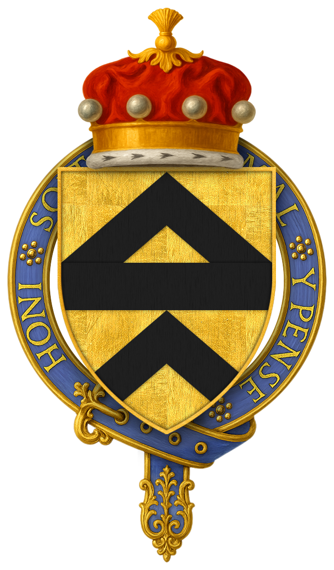 Coat of Arms of Sir John de Lisle, 2nd Baron Lisle, KG “ De Lisle, Sir John, K.G., a founder, and Robert (E. III. Roll) bore, or a fess between two chevronels sable. ” FOSTER, Joseph, Some Feudal Coats of Arms from Heraldic Rolls 1298-1418, London: James Parker & Co., 1902.